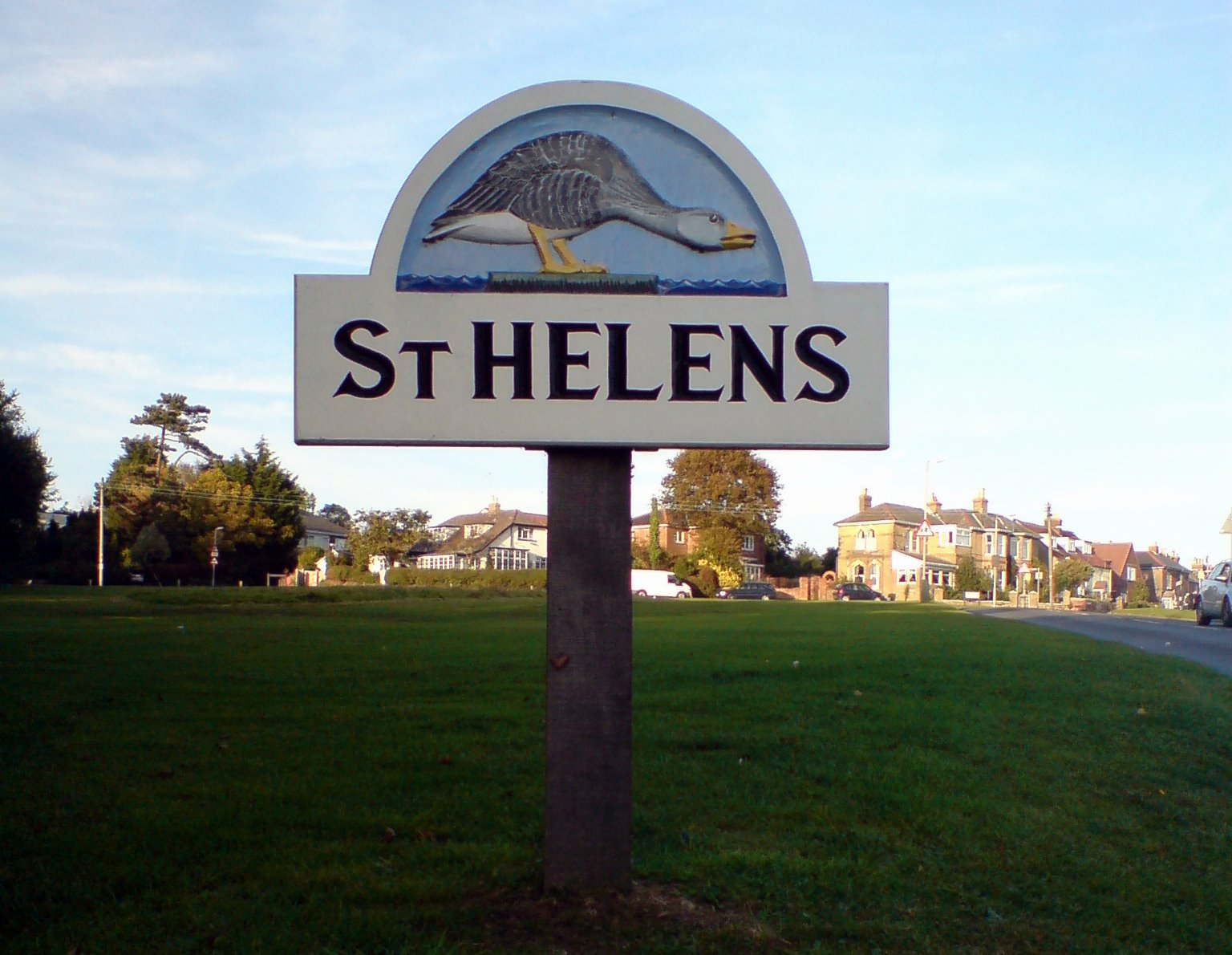 St Helens village sign, Isle of Wight, UK